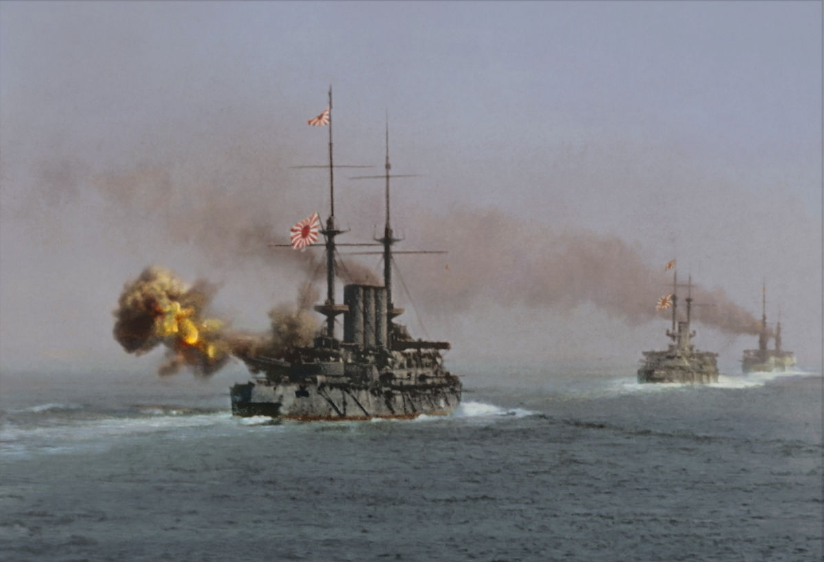 View of Japanese battleships in action, the Shikishima, Fuji, Asahi and Mikasa, taken during the Battle of the Yellow Sea.